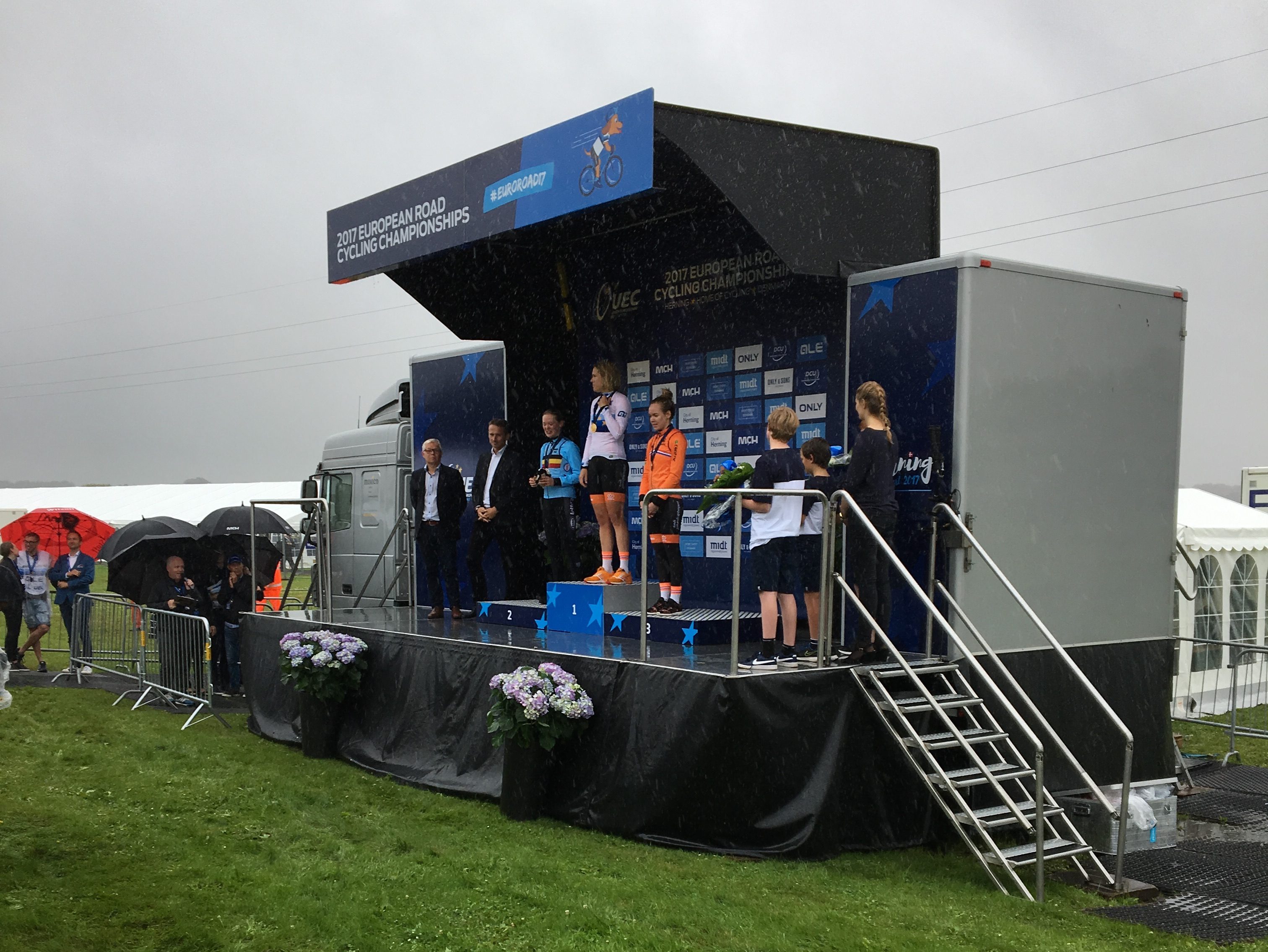 2017 European Road Championships – Women's time trial, Podium